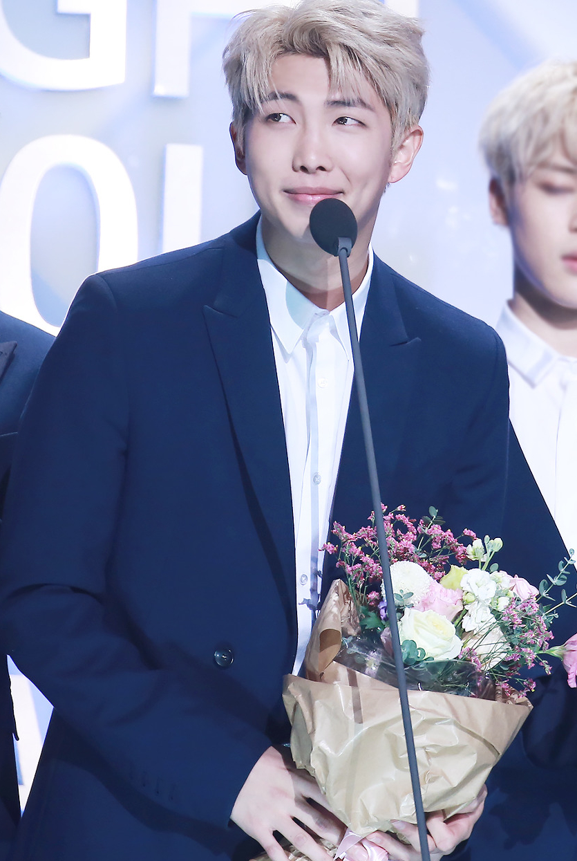 Rap Monster at Seoul Music Awards on January 19, 2017